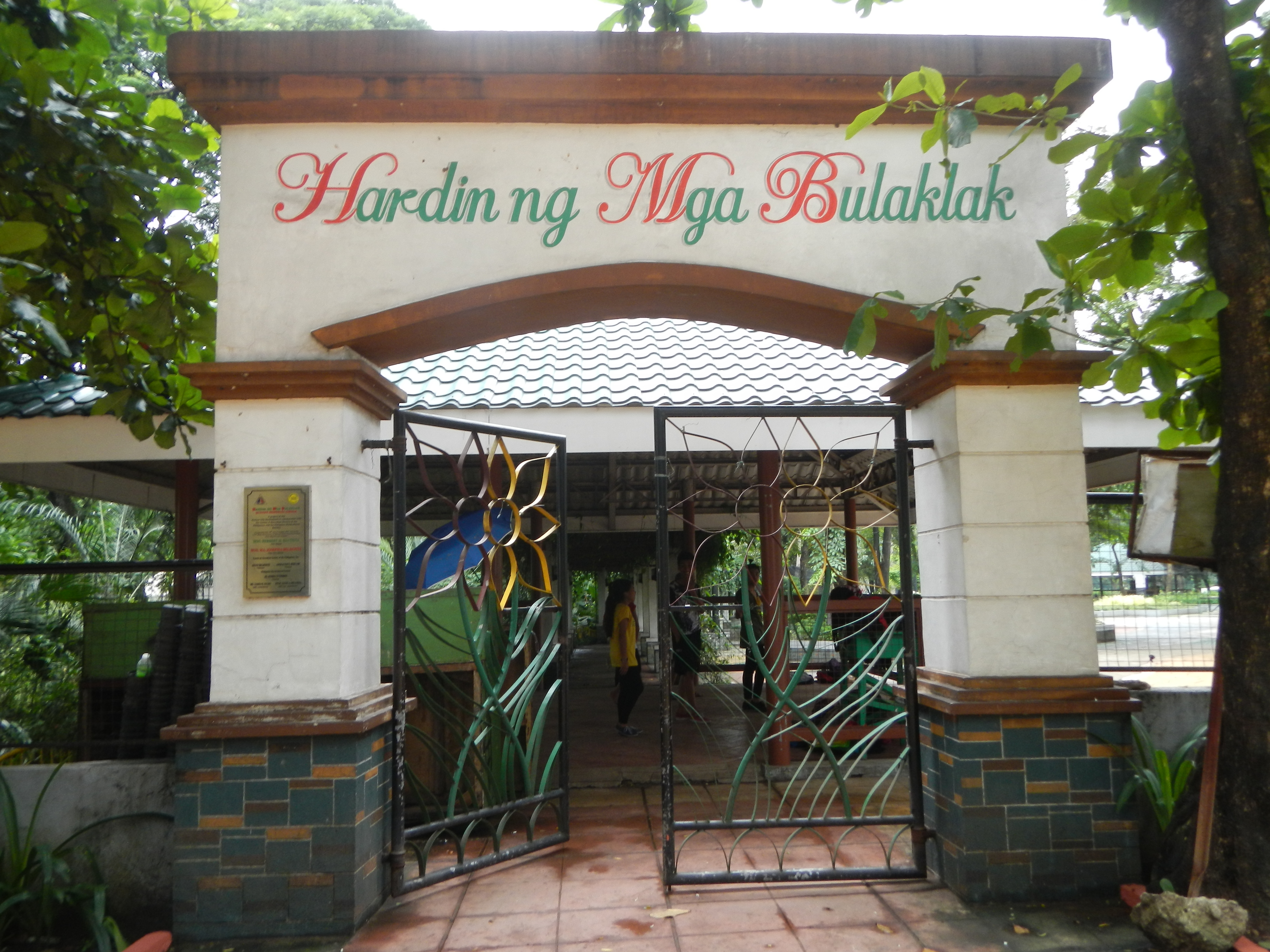 Hardin ng mga Bulaklak (Quezon Memorial Circle) 14°39′03″N 121°02′54″E Inaugurated August 29, 2011 Quezon Memorial Circle in Quezon City, Manuel L. Quezon, Quezon Memorial Circle Shrine Museum; tallest structure in Quezon City standing at 66 meters; (Note: Judge Florentino Floro, the owner, to repeat, Donor Florentino Floro of all these photos hereby donate gratuitously, freely and unconditionally all these photos to and for Wikimedia Commons, exclusively, for public use of the public domain, and again without any condition whatsoever).